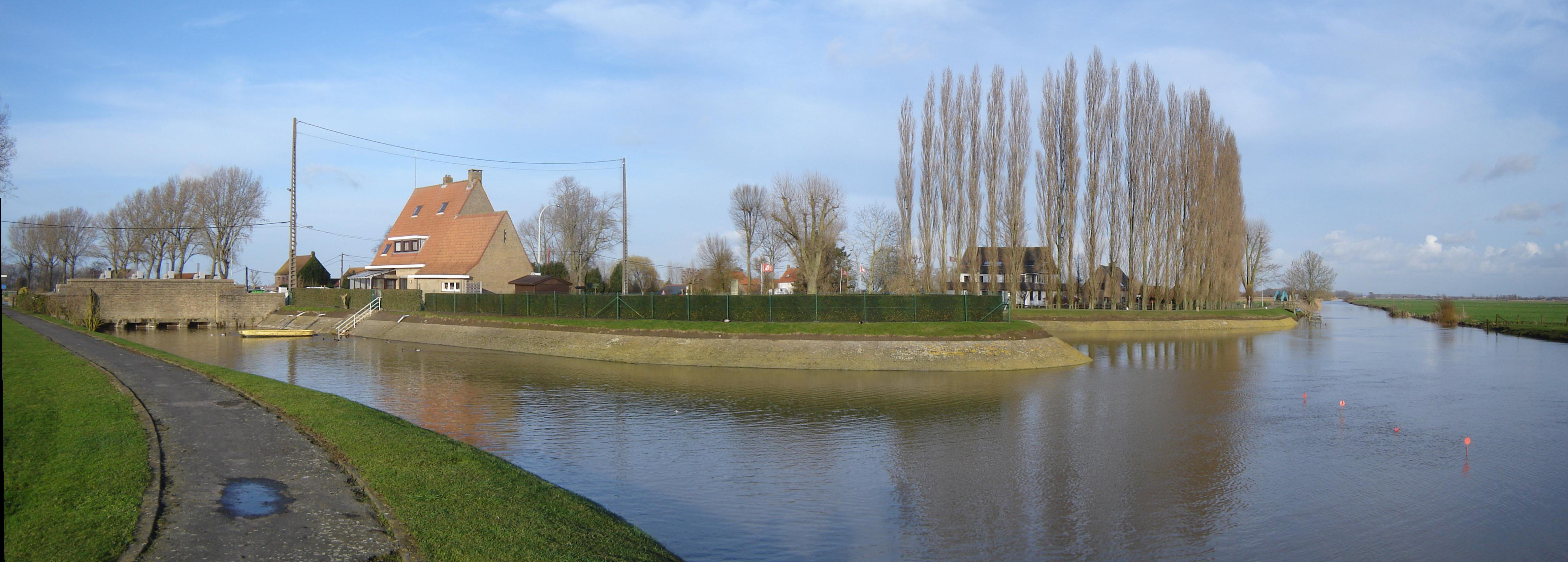 Confluence of the Lovaart canal and the Yser at the "Fintelesas" in Fintele. Fintele, Pollinkhove, Lo-Reninge, West Flanders, Belgium